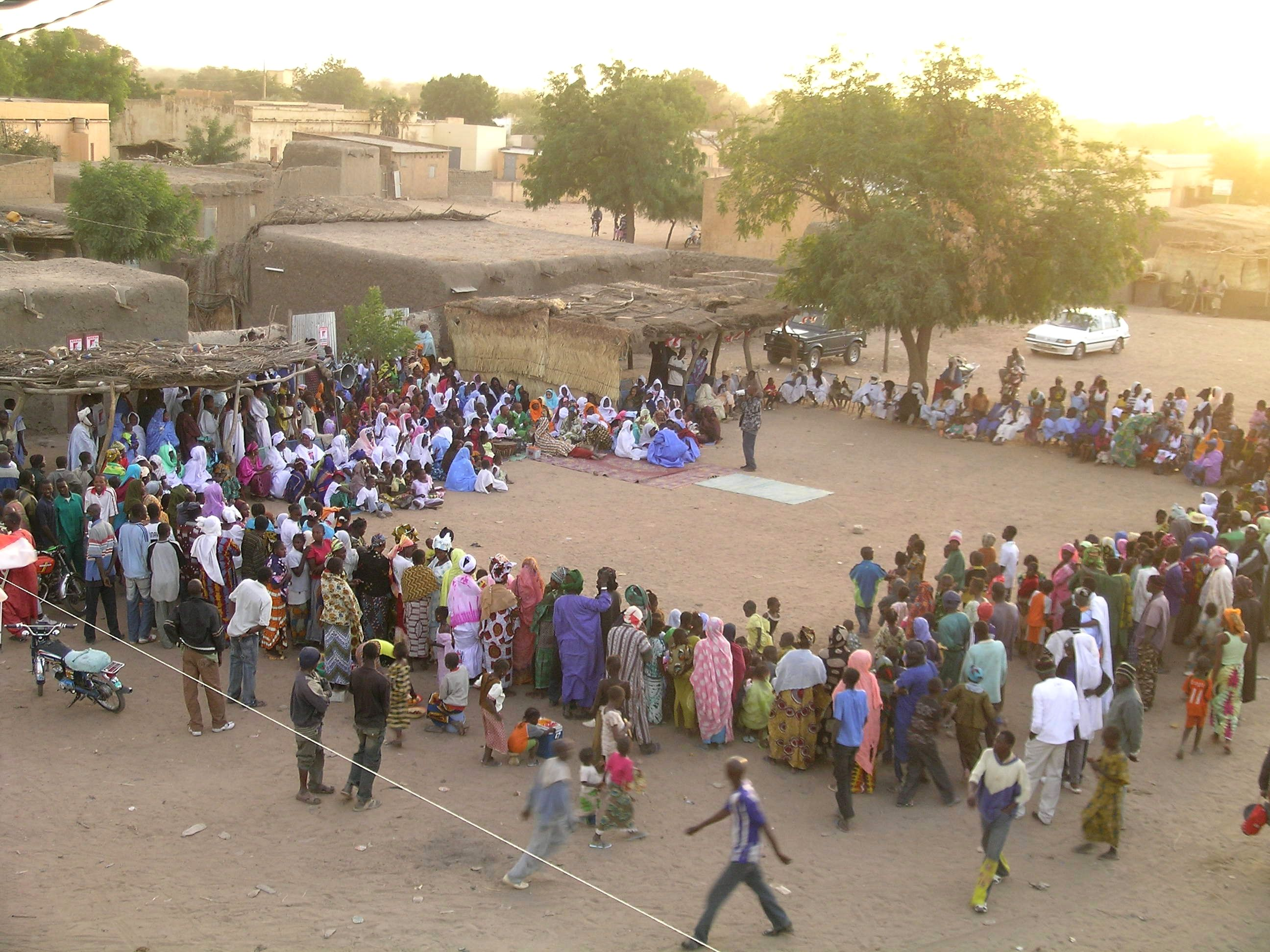 A gathering/concert in Nara, North central Mali.